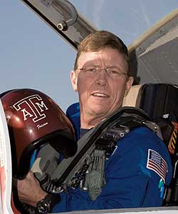 STS-121 Mission Specialist Mike Fossum in a NASA T-38 trainer jet.